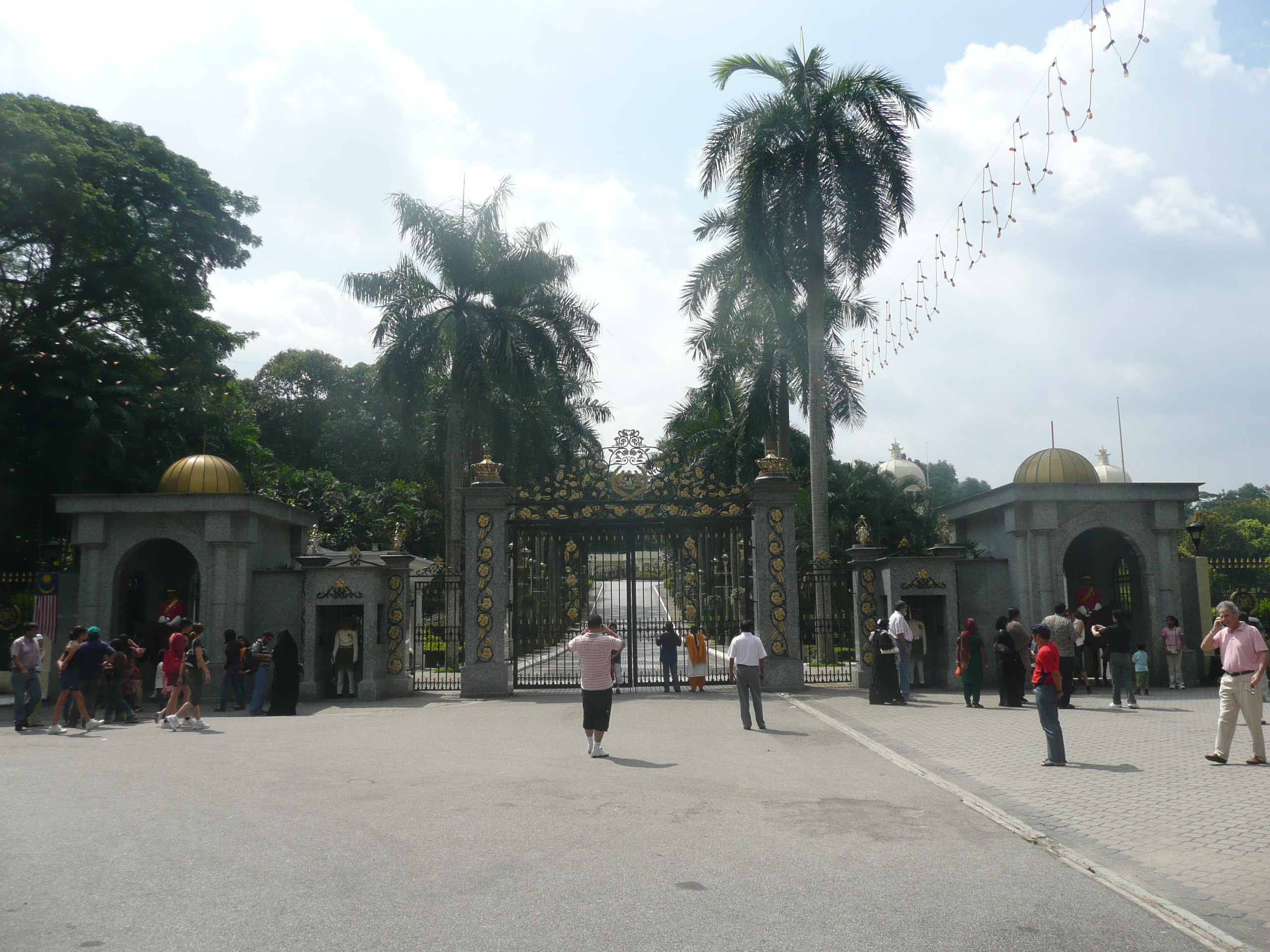 Main gate of the Istana Negara, Kuala Lumpur.